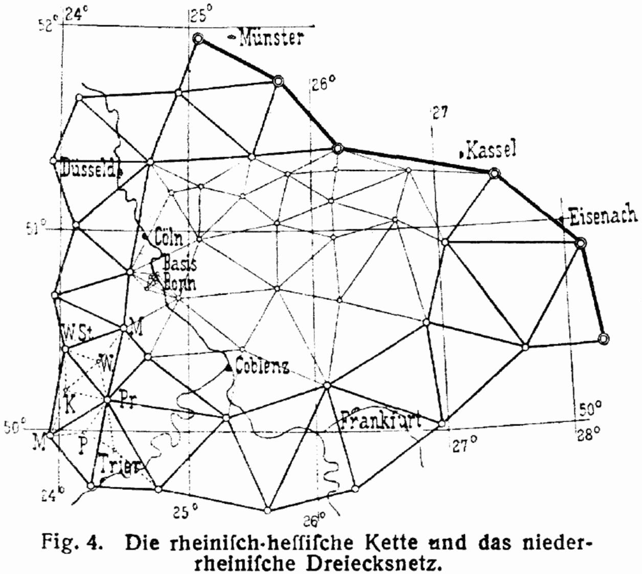 triangulation map